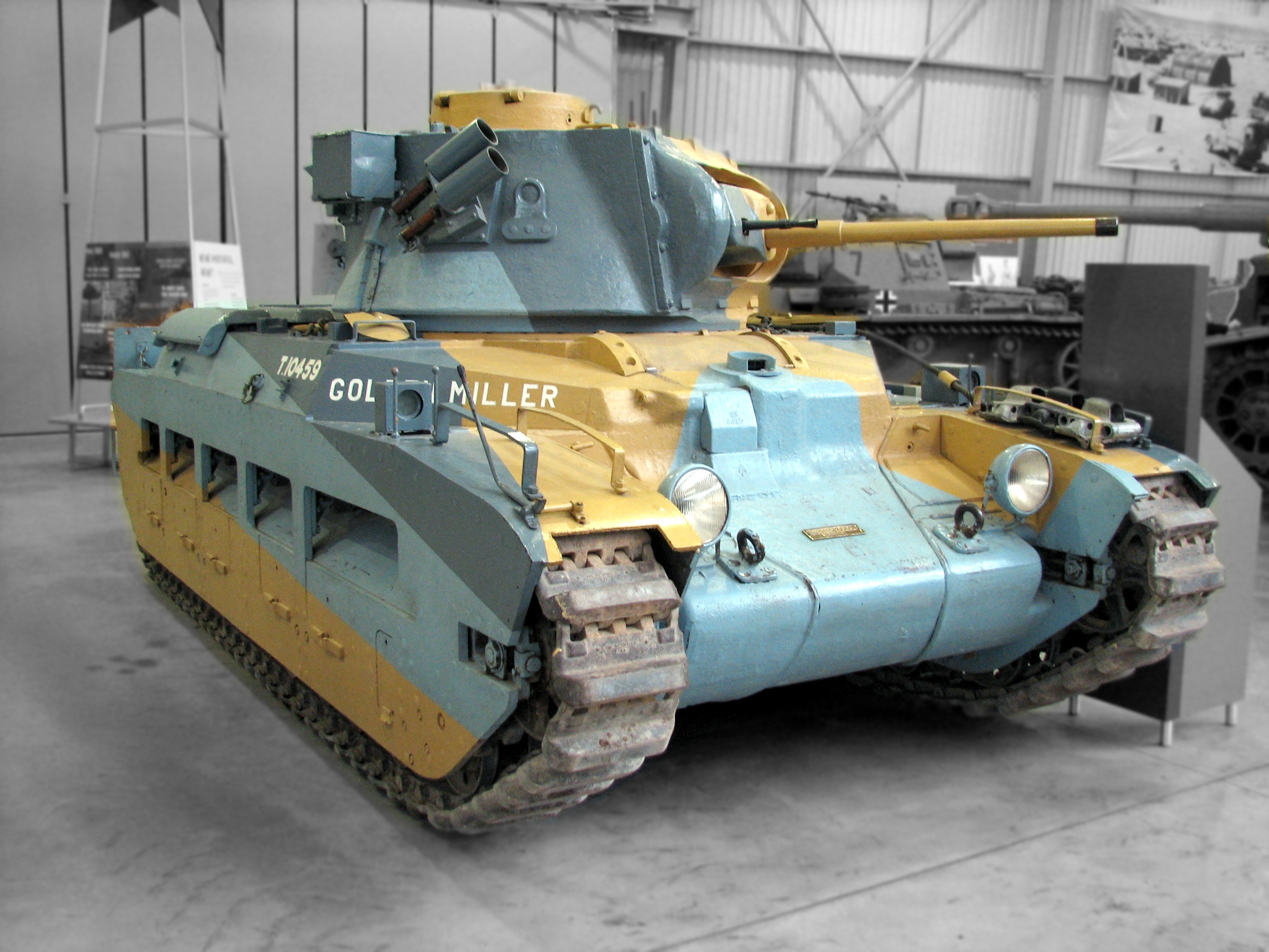 Matilda II at the Bovington Tank Museum